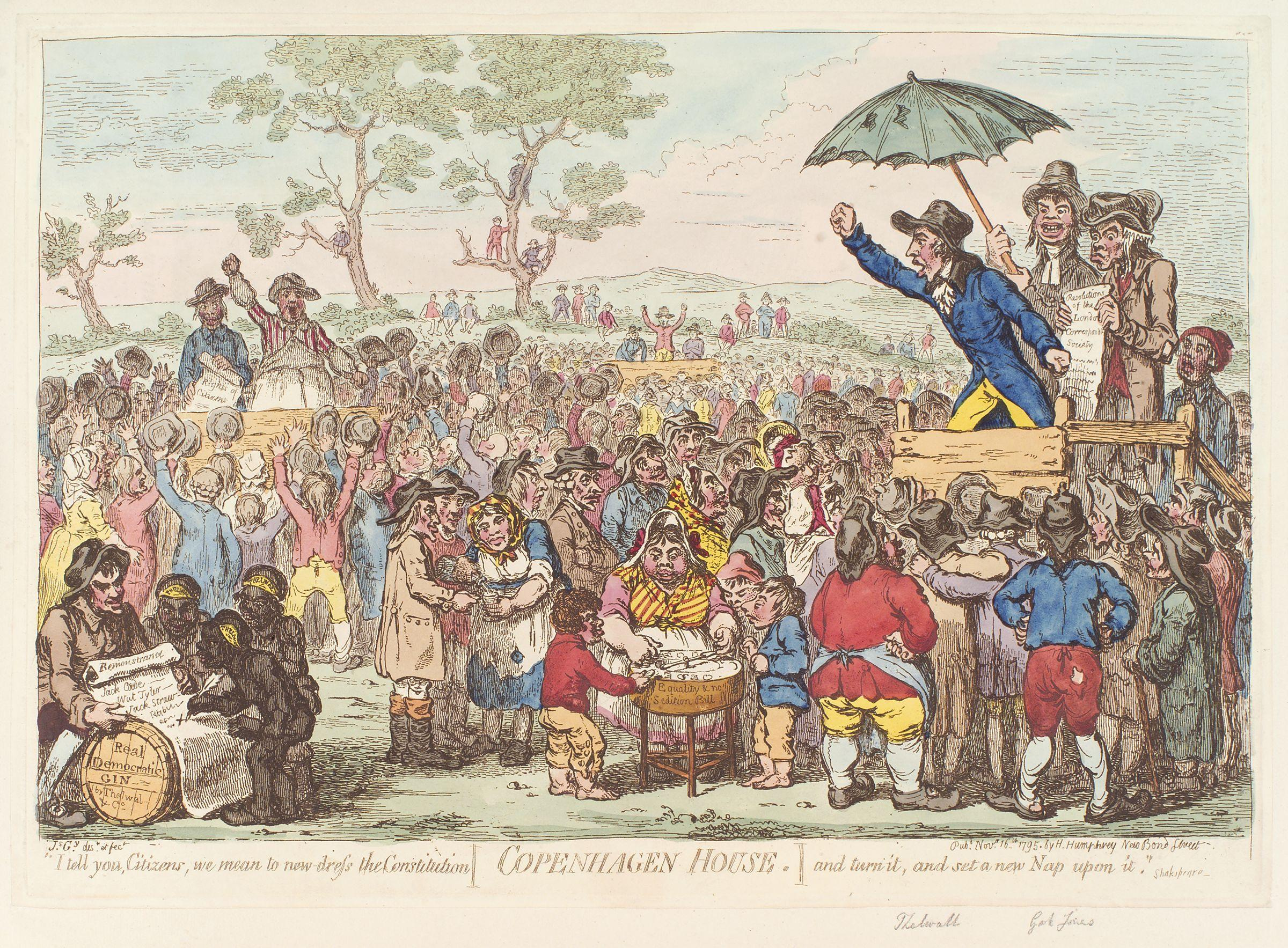 Copenhagen house' (John Gale Jones; Joseph Priestley; William Hodgson; John Thelwell; Charles James Fox), by James Gillray (died 1815), published 1795. All images in this batch have been confirmed as author died before 1939 according to the official death date listed by the NPG.